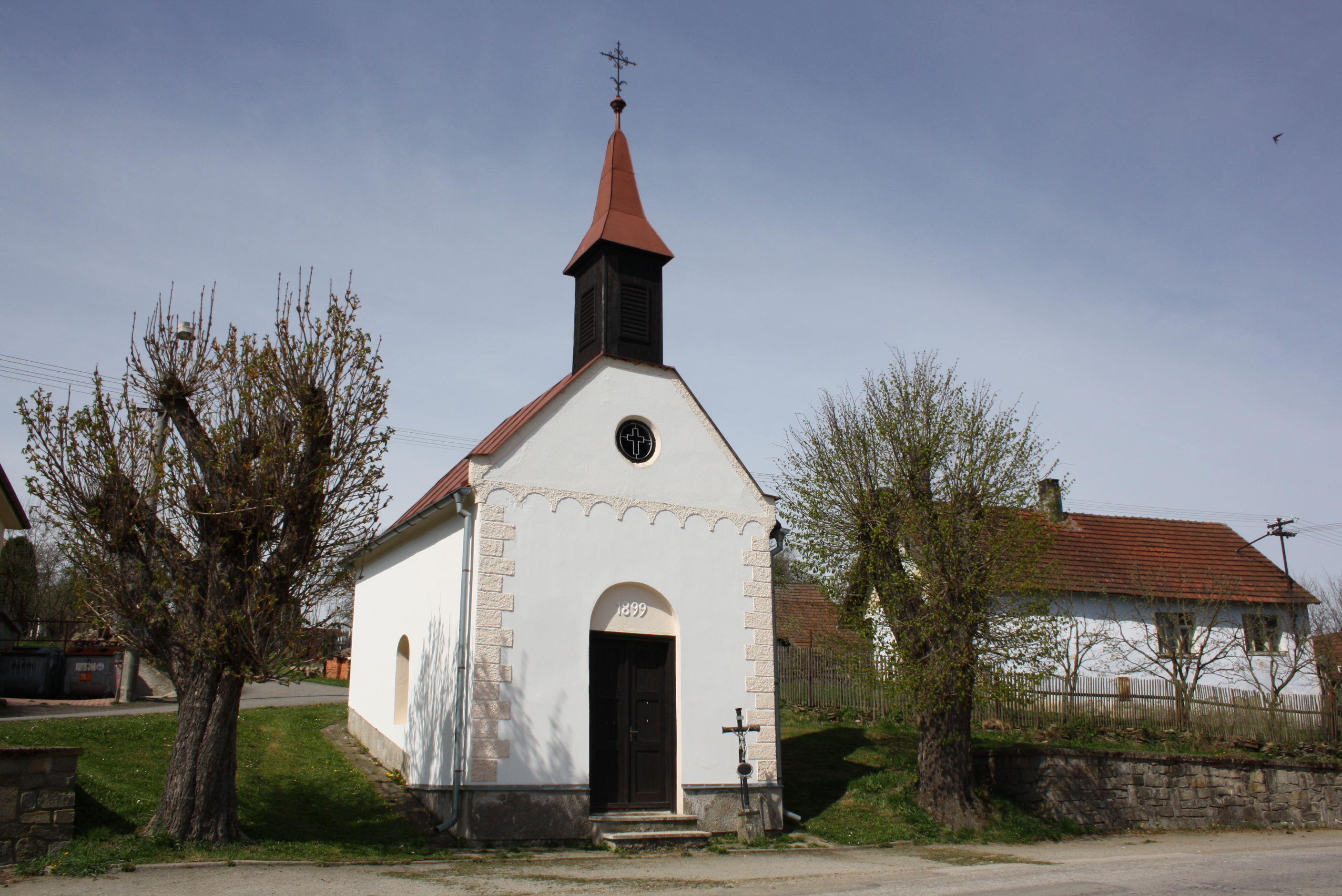 Útěchovičky, Pelhřimov District, Czech Republic